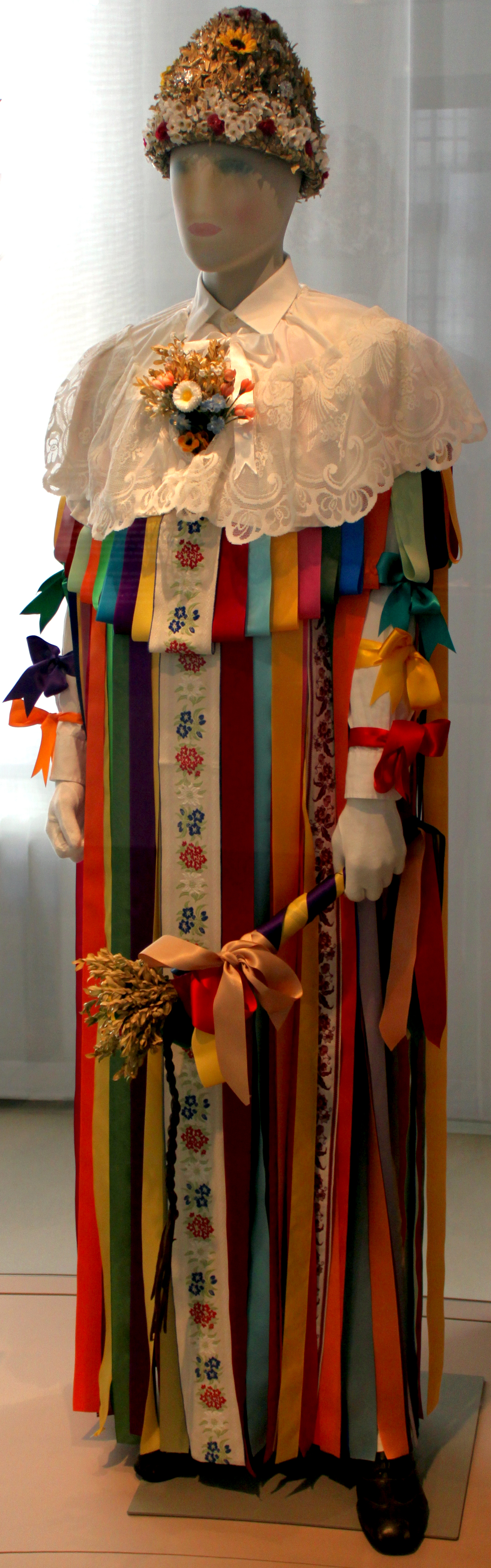 Costume of a "Candlemas Runner"; Ethnological Museum, Berlin